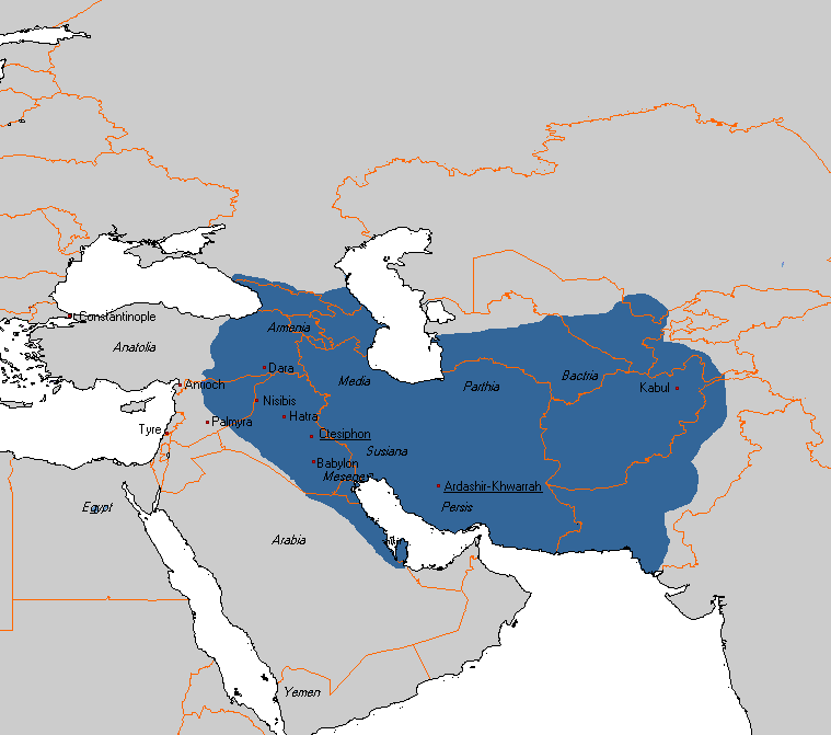 This is a map of the Sassanid Empire under Shapur I.